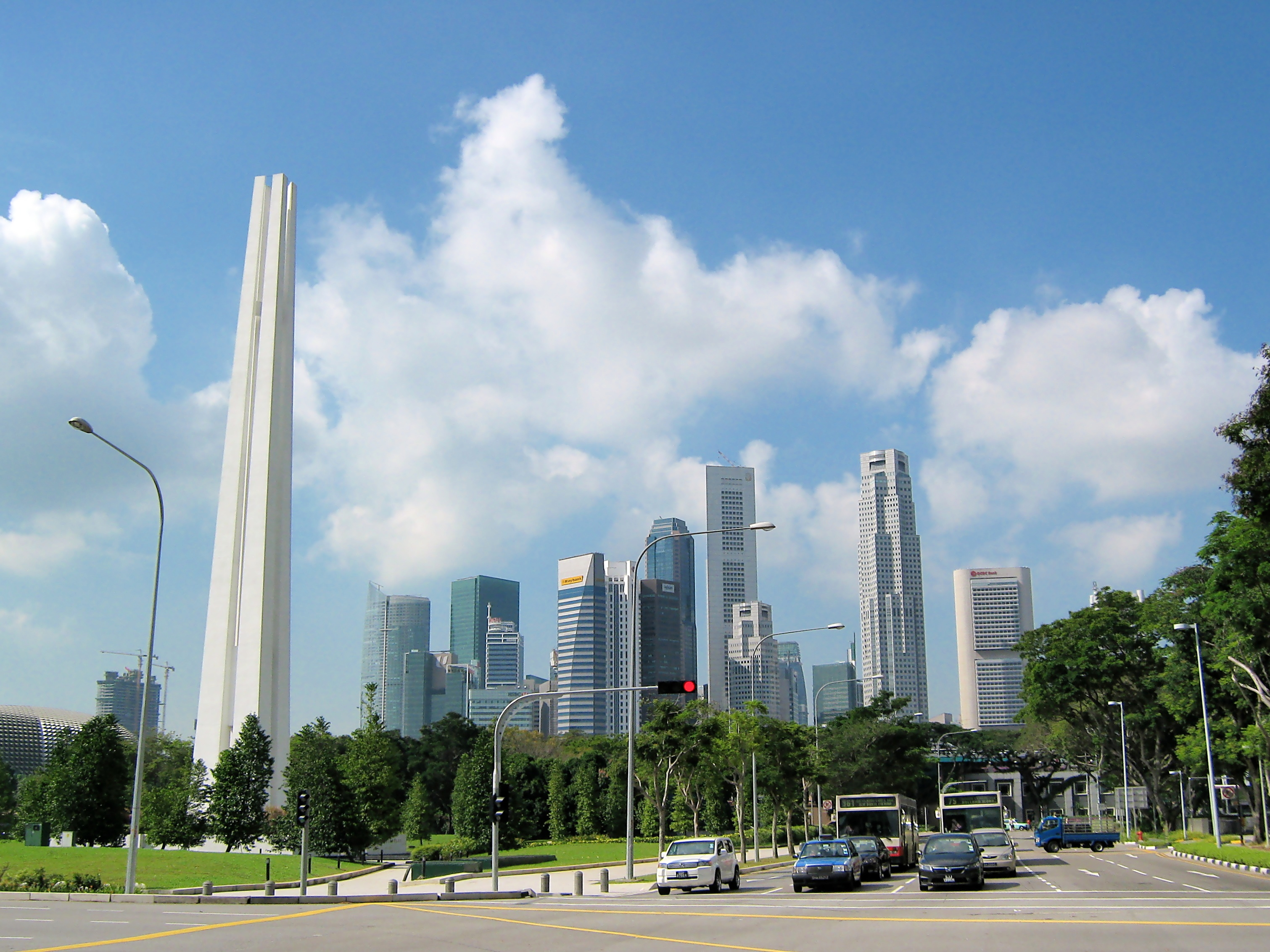 In Apr/May 2009, I took 15 days to walk all the way from Tokyo to Kyoto, roughly following the 546km long, ancient highway, the Nakasendo, alone. This picture was taken on one of the many training walks I did for the long solo walk in Singapore. Read about my preparations and my time in Japan at .